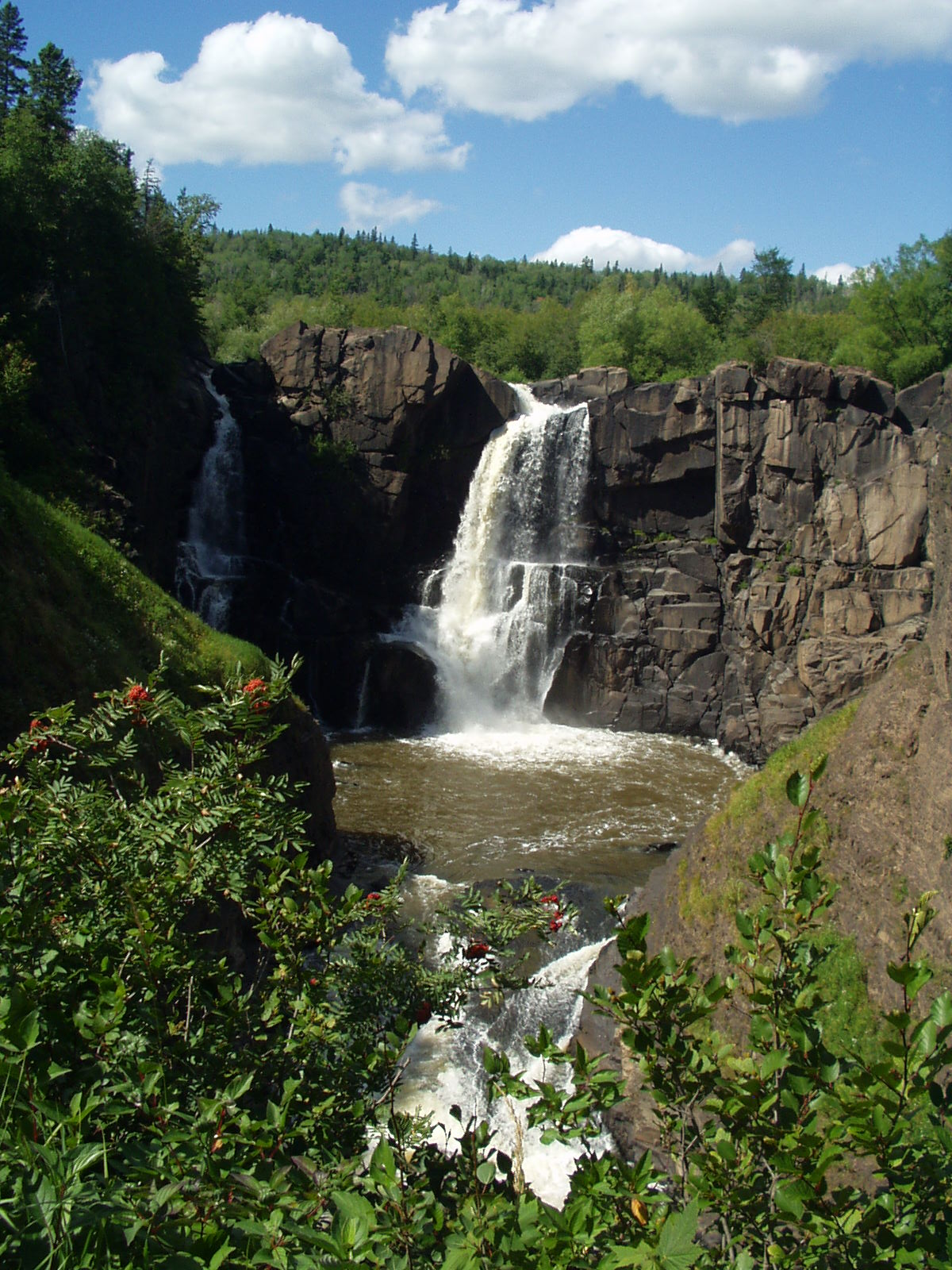 Grand Portage State Park in Minnesota. 120 foot waterfall on the Pigeon River is highest in Minnesota. Category:Images of Minnesota